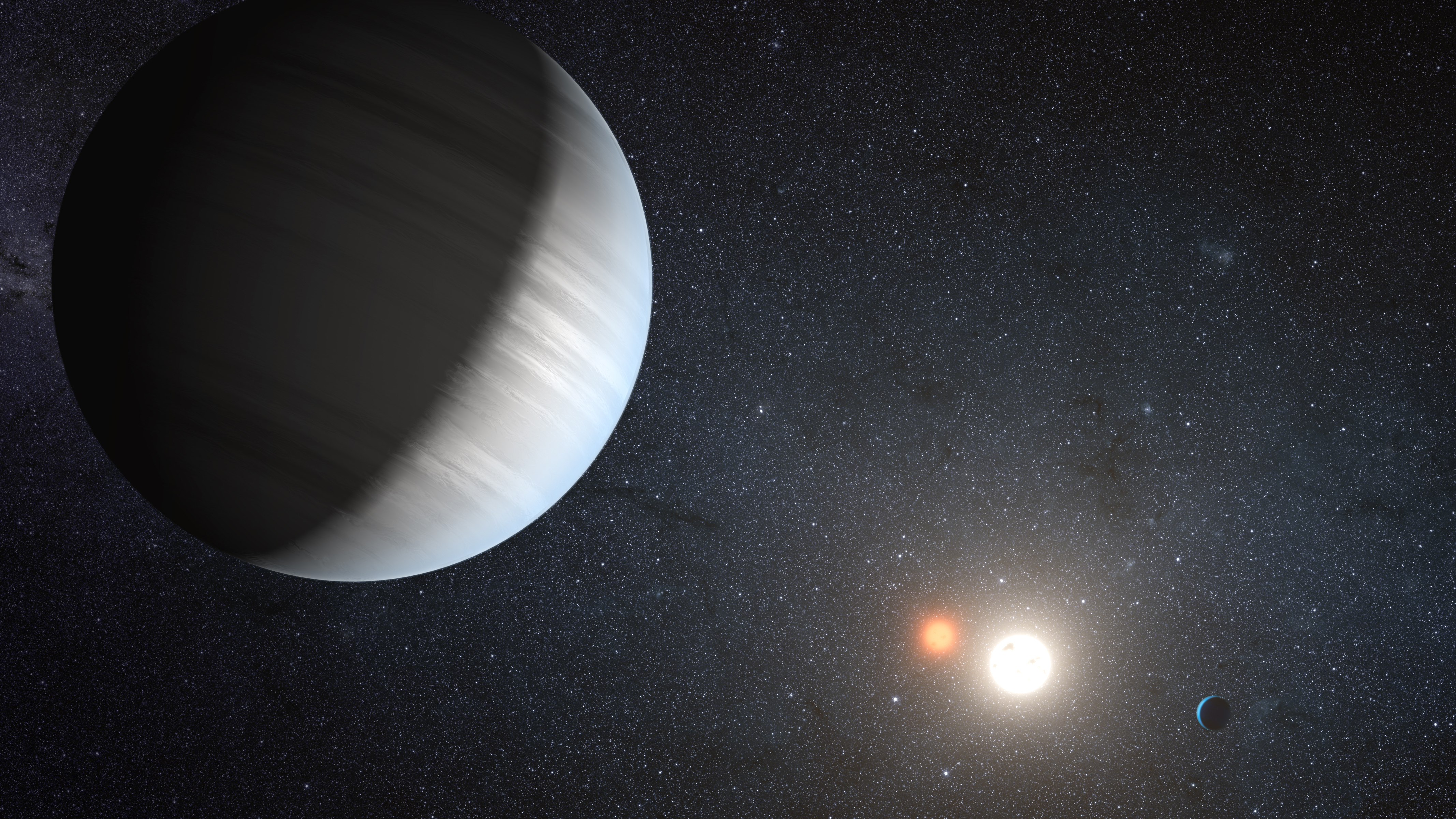 This artist's concept illustrates Kepler-47, the first transiting circumbinary system -- multiple planets orbiting two suns – 4,900 light-years from Earth, in the constellation Cygnus. The system was detected by NASA's Kepler space telescope, which measures minisucule changes in the brightness of more than 150,000 stars to search for planets that pass in front of or 'transit' their host star. As seen from our vantage point on Earth, the two orbiting stars regularly eclipse each other every 7.5 days. One star is similar to the sun in size, but only 84 percent as bright. The second star is diminutive, measuring only one-third the size of the sun and less than one percent as bright. Two planets also eclipse, or transit, the host stars. The inner planet, Kepler-47b, orbits the pair of stars in less than 50 days. At three times the radius of Earth, it is the smallest known transiting circumbinary planet. Seen in the foreground, the outer planet, Kepler-47c, orbits its host pair every 303 days, placing it in the so-called "habitable zone," the region in a planetary system where liquid water might exist on the surface of a planet. While not a world hospitable for life, Kepler-47c is thought to be a gaseous giant, slightly larger than Neptune, where an atmosphere of thick bright water-vapor clouds might exist. For more, visit: this page